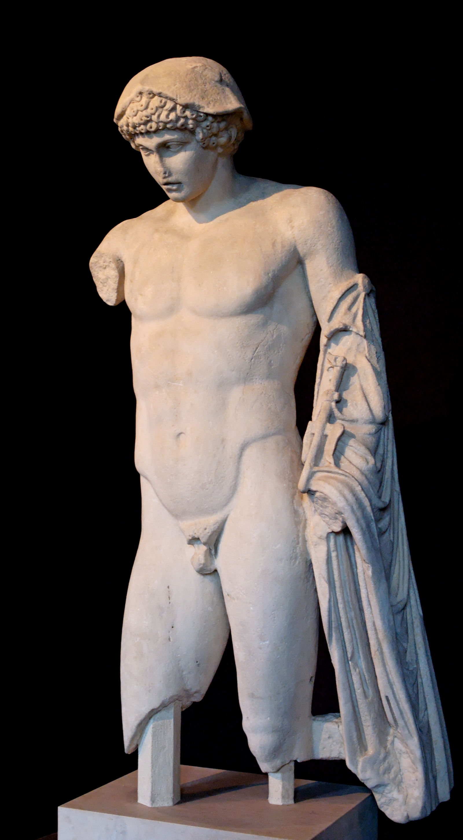 Hermes psychopompus, statue of the Ludovisi Hermes type. Italic marble, Roman copy from the 1st century CE after a bronze original of the 5th century traditionnally attributed to the young Pheidias.